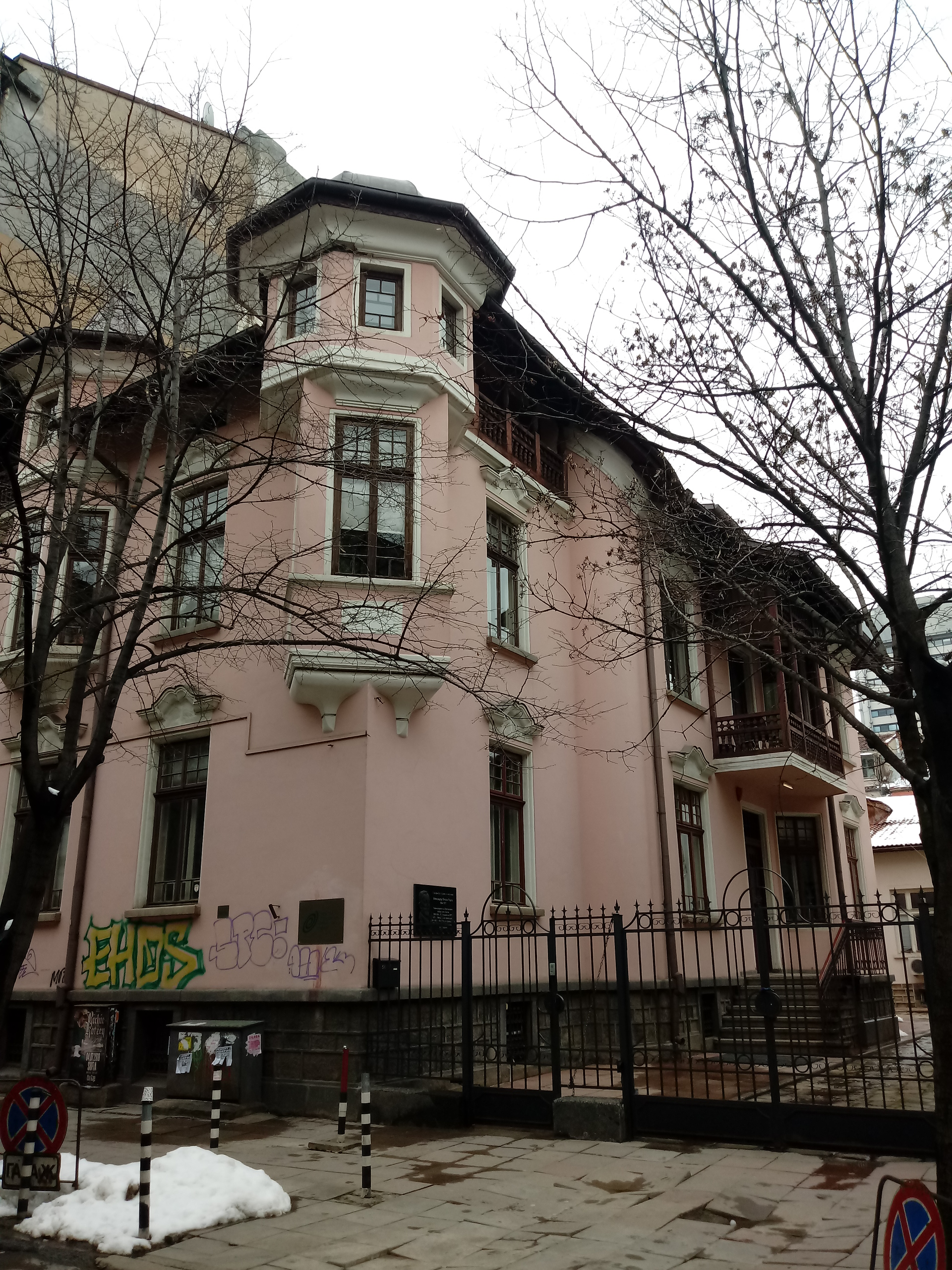 Alexander Radev home with memorial plaque and office of The Open Society Foundation Bulgaria, 56 Solunska Str., Sofia